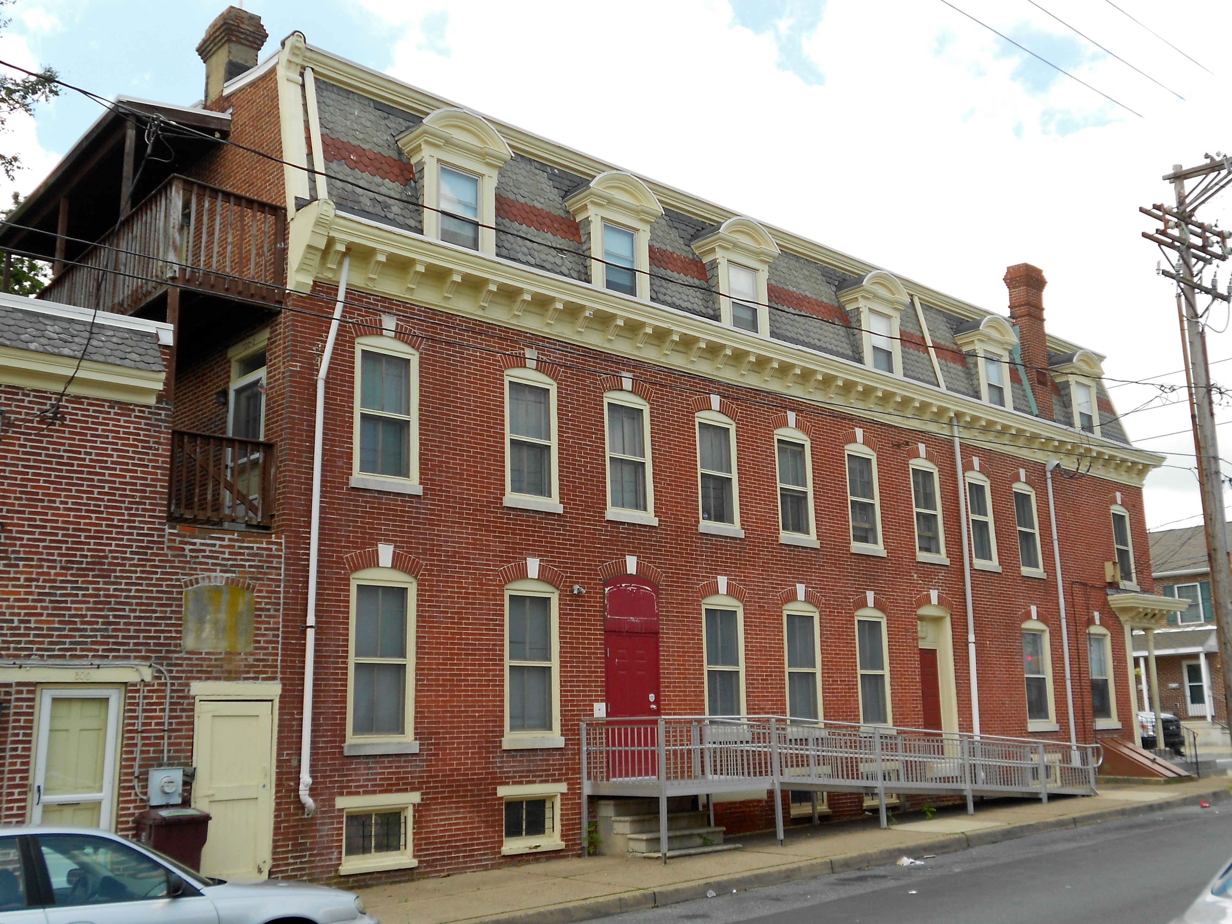 Empire style building at 8th and Church, Wilmington, Delaware. In the Church Street Historic District, listed on the NRHP on June 12, 1987. The district is bounded by Eighth, Locust, Seventh, and Church Sts.